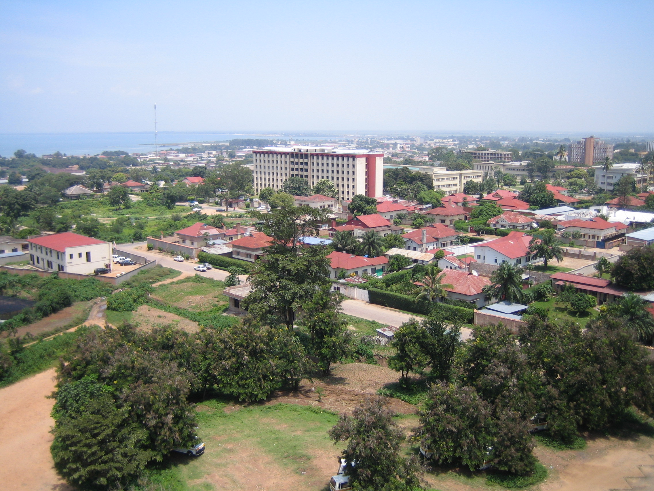 A view of central Bujumbura from the cathedral spire